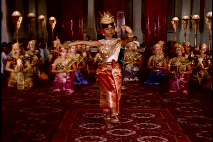 A snapshot from a film of Princess Buppha Devi dancing. This excerpt was pulled from a video of the Royal Ballet of Cambodia posted on 's Youtube channel. The U.S. National Archives also has a clip and mentions it was created by the United States Information Agency.